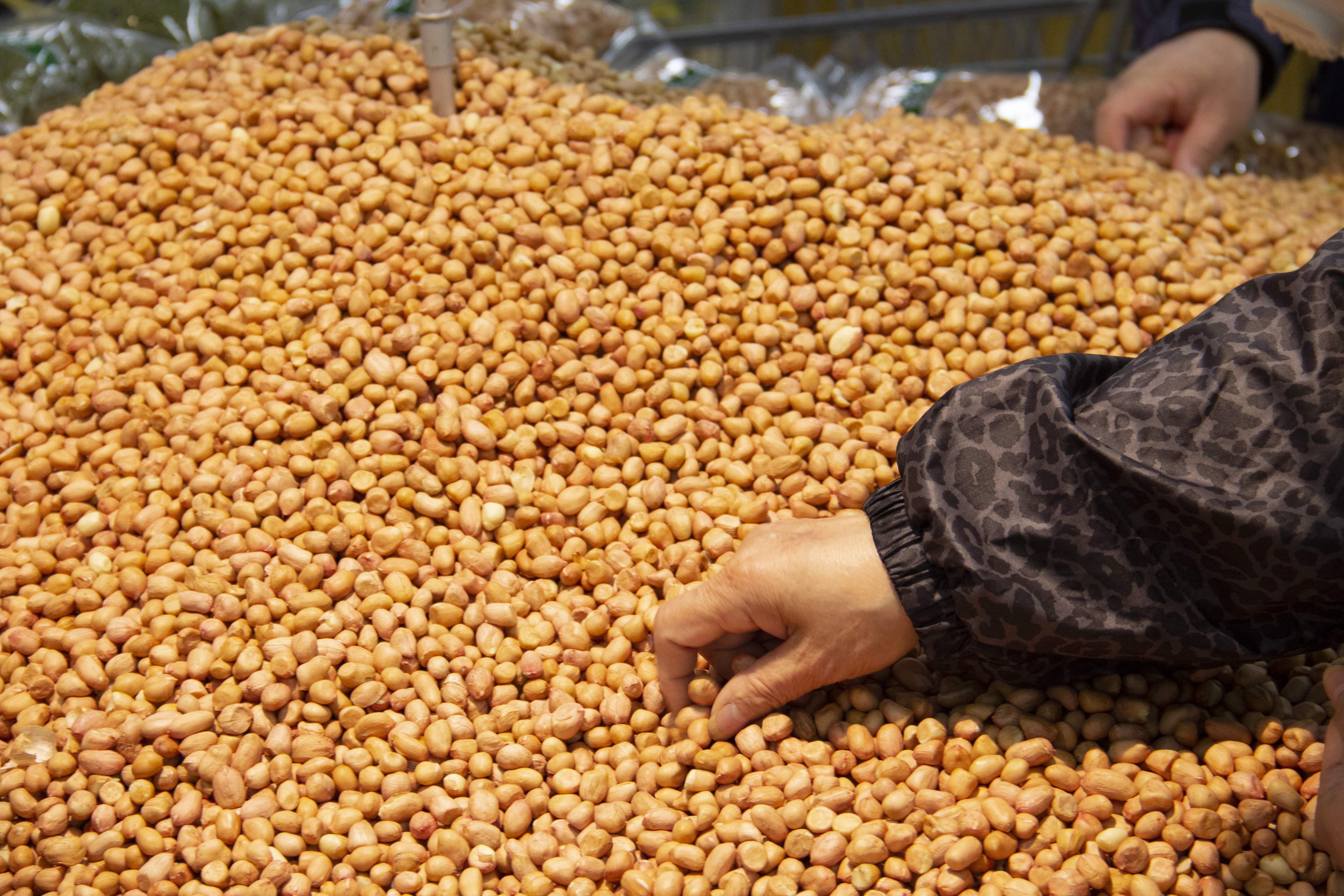 peanuts, hand picking